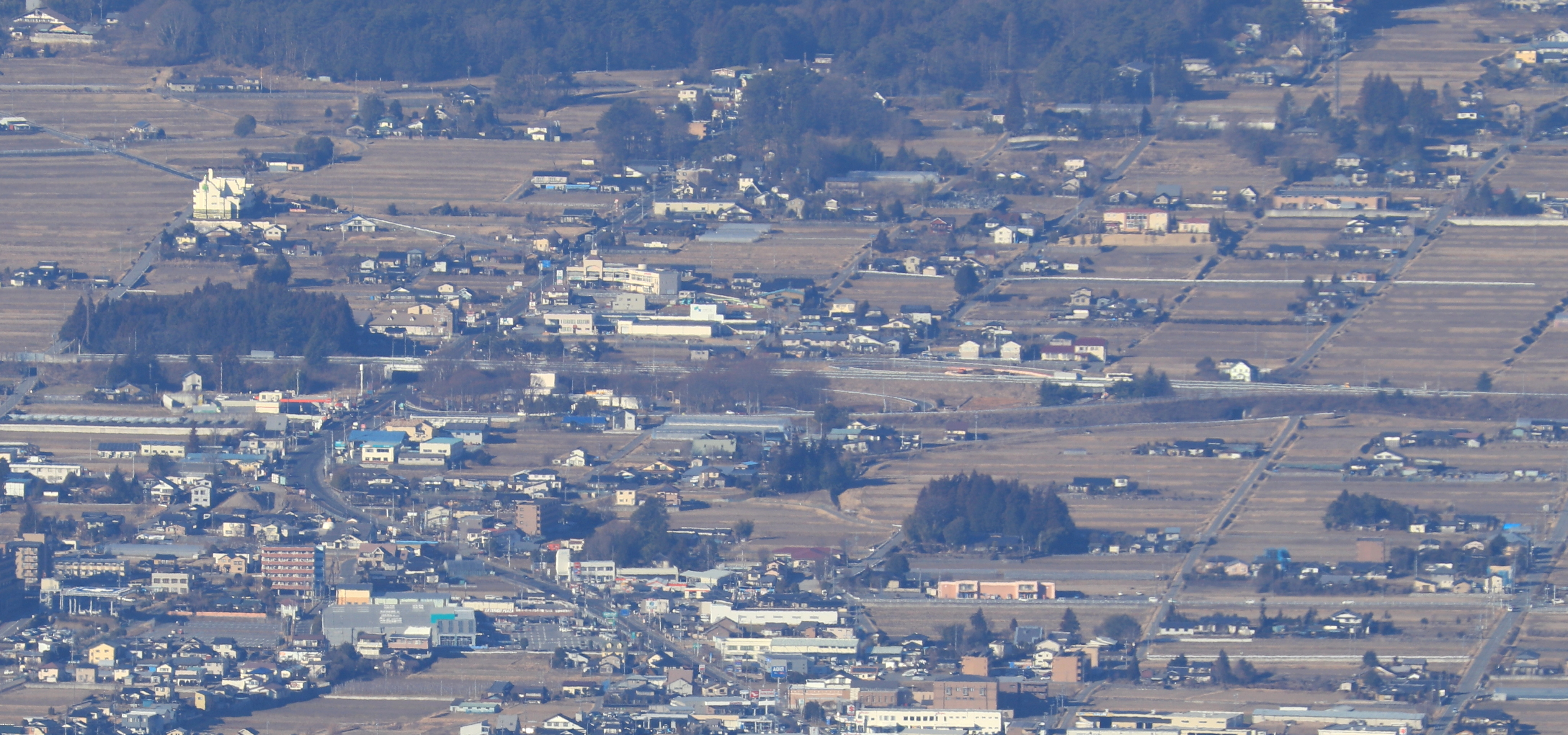 Komagane Interchange seen from Mount Tokura in Komagane, Nagano Prefecture, Japan. Canon EOS Kiss X9